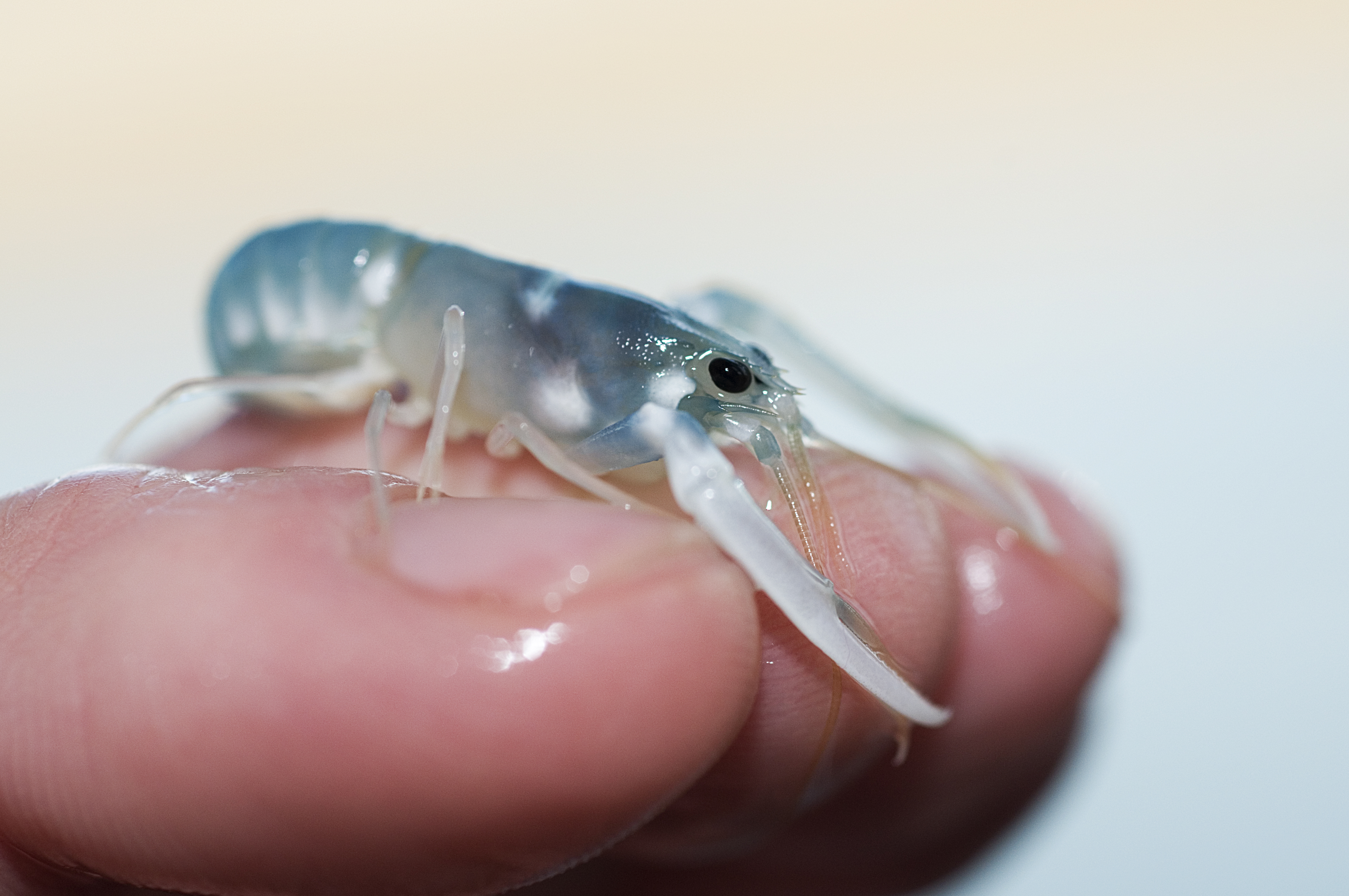 A photo of a juvenile European lobster.